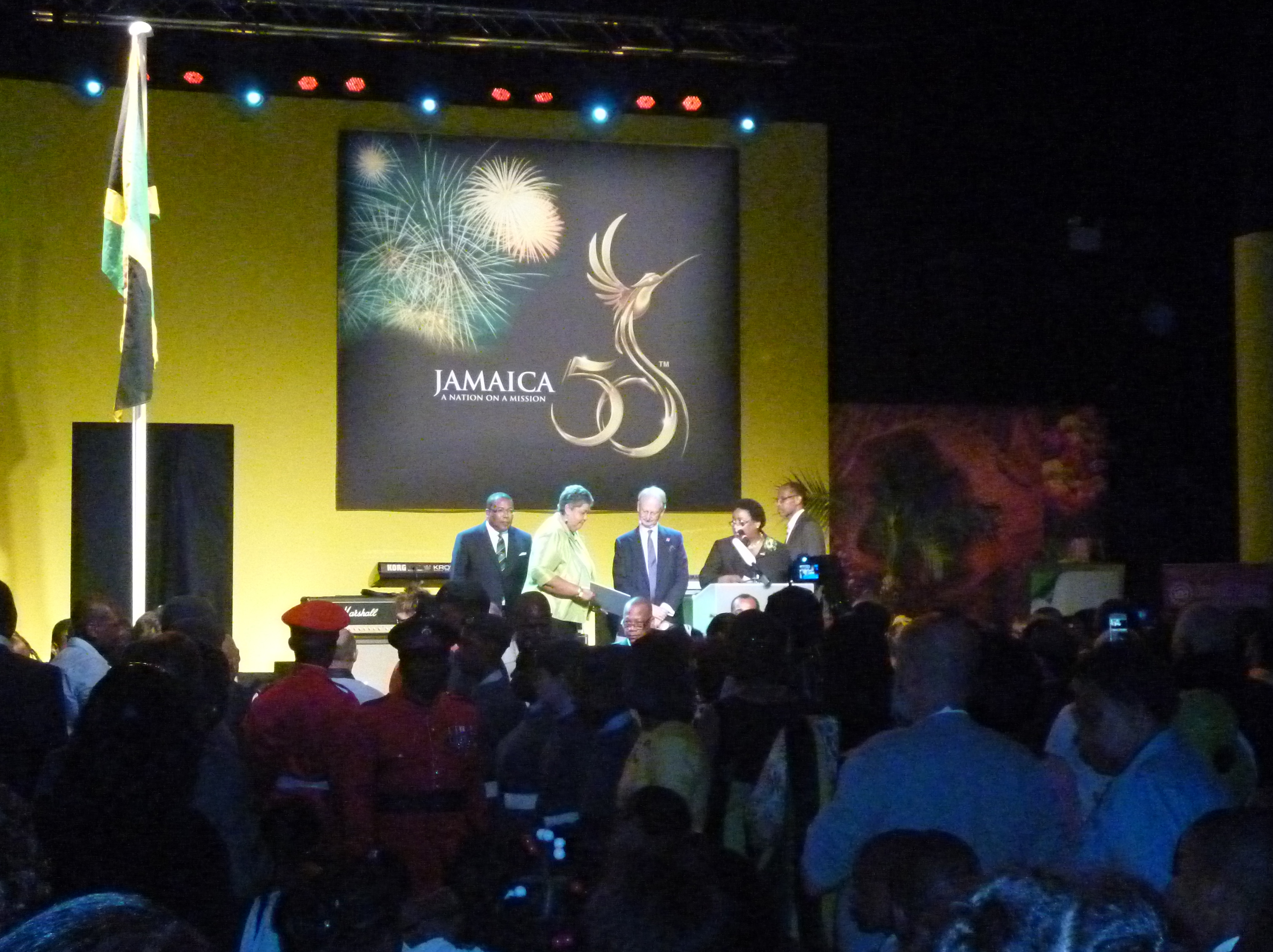 Foreign Office Minister Henry Bellingham at an event held in Jamaica House at the North Greenwich Arena, London to mark the 50th Anniversary of Jamaican Independence, 6 August 2012.